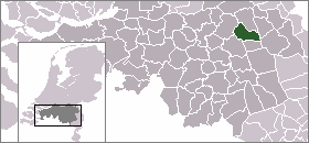 Location of Uden in the Netherlands.